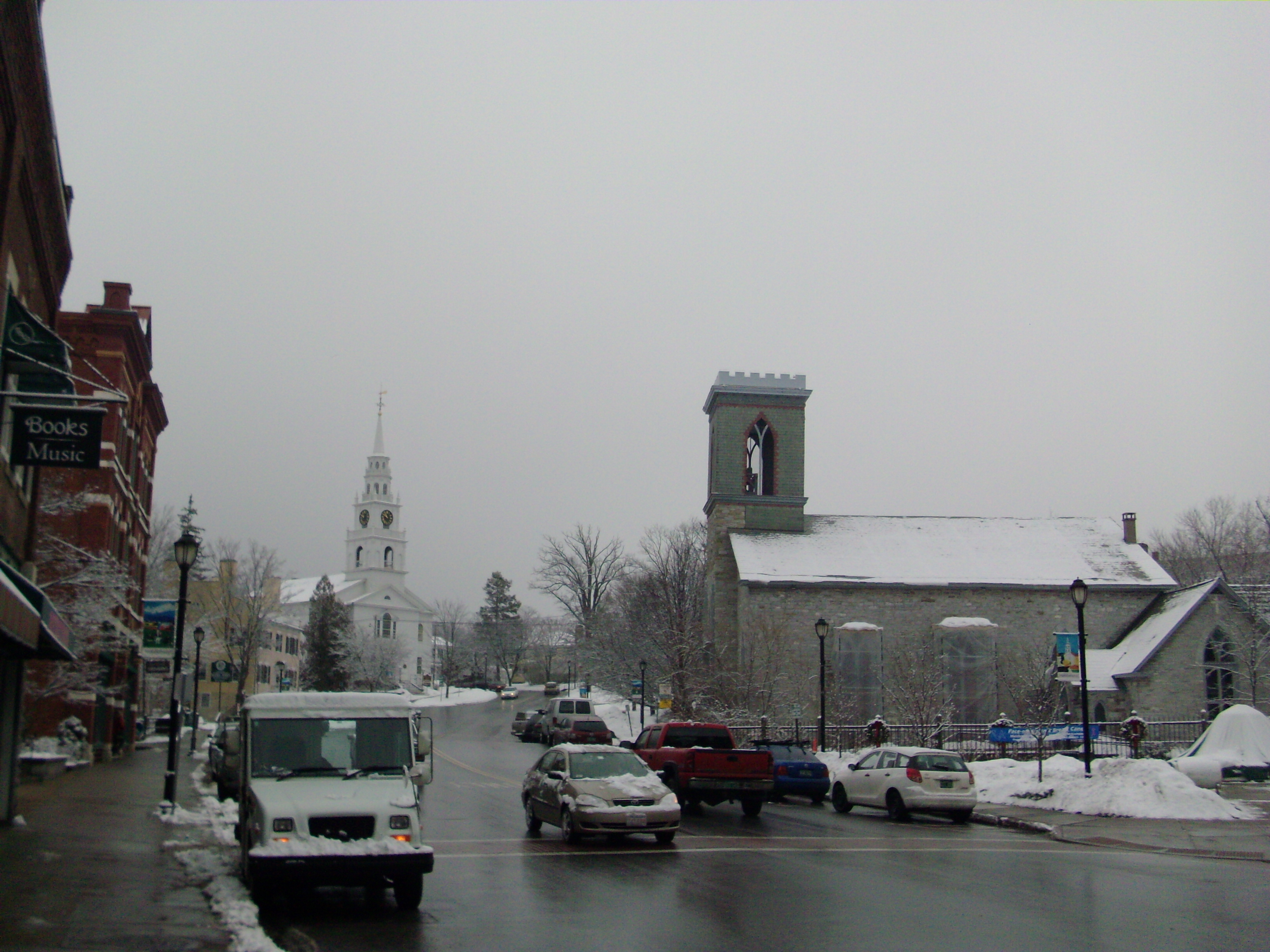 Middlebury Congregational Church (left) and St. Stephen's Episcopal Church (right) on Main Street in Middlebury, Vermont.